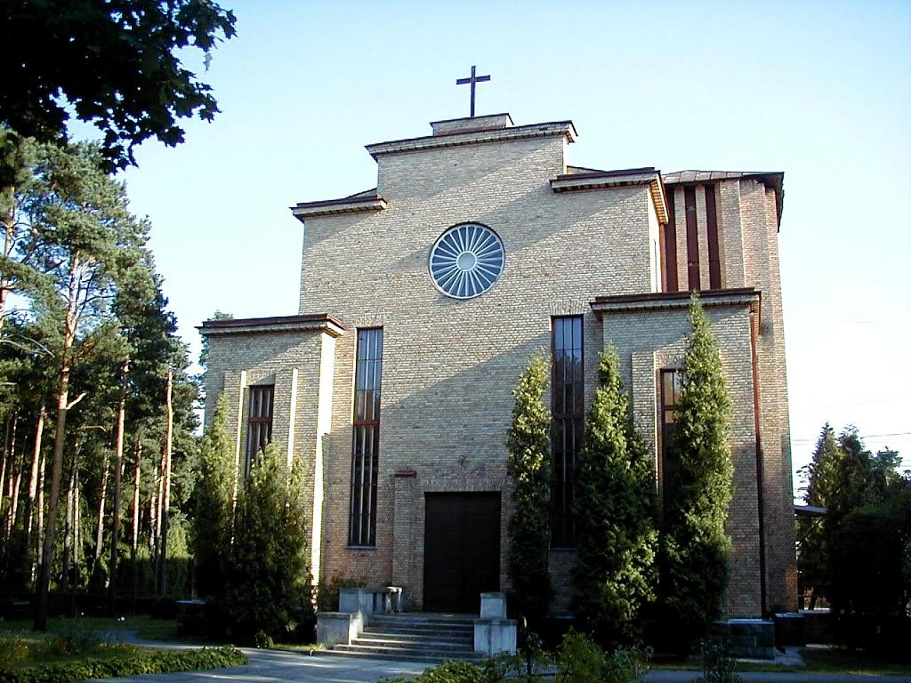 Christ the King Roman Catholic Church in RigaLatviešu: Rīgas Kristus karaļa Romas katoļu baznīca